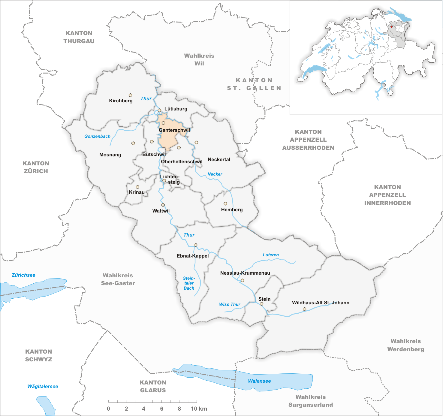 Municipality Ganterschwil